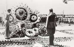 Photo of a rememberance ceremony